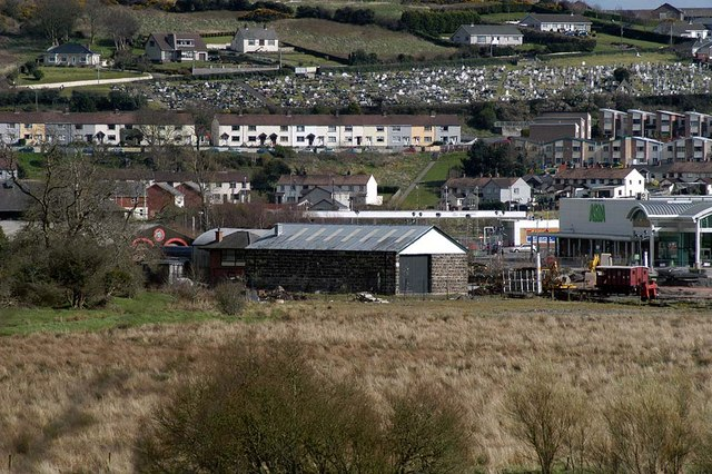 Maghera Goods Shed, Downpatrick The Maghera Goods Shed (centre of photo) originally stood in the village of Maghera. It has been preserved at Downpatrick and is now used as a engine shed.